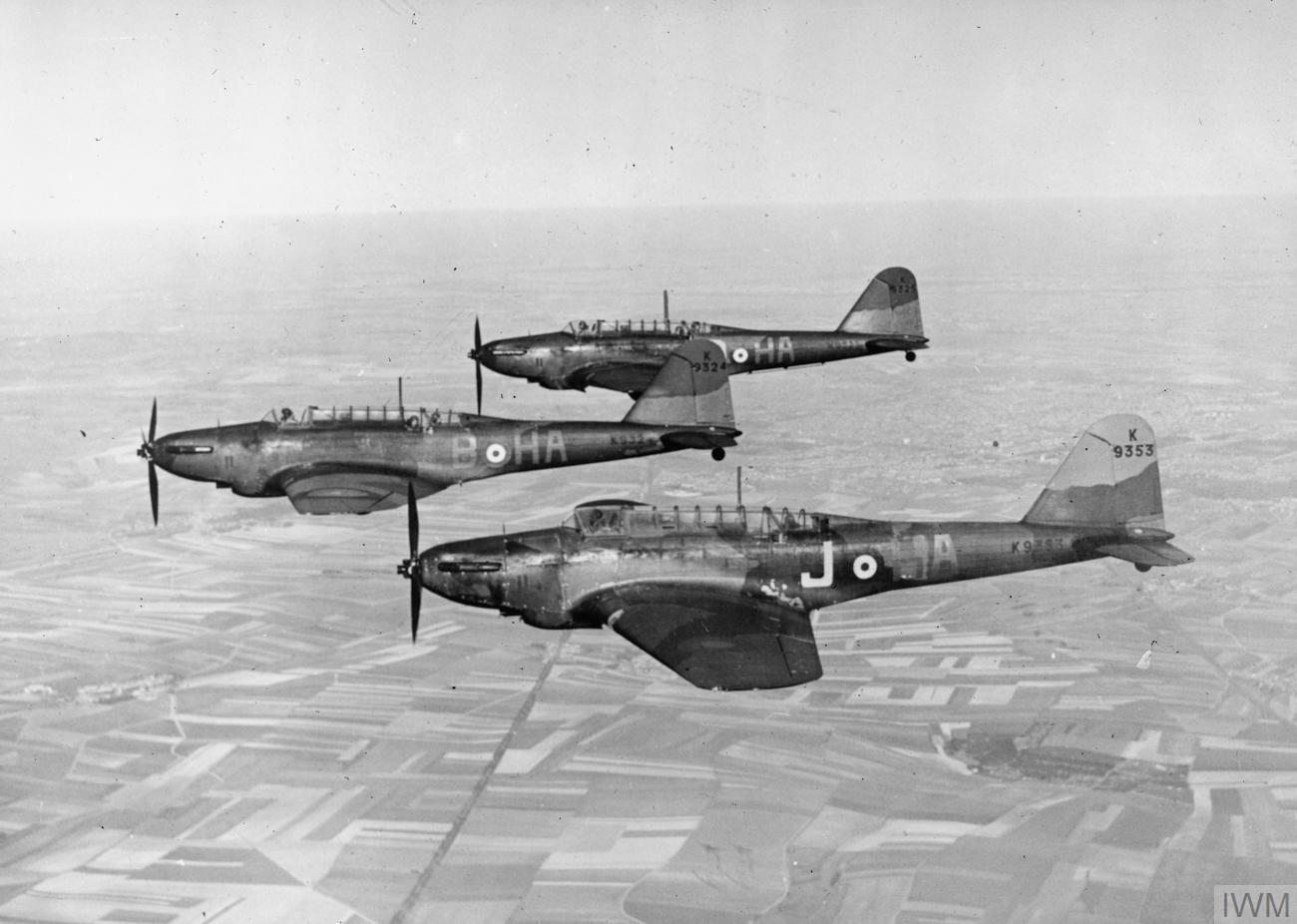 IWM caption : The Royal Air Force in France 1939 - 1940: Three Fairey Battle fighter bombers of No 218 Squadron over France.